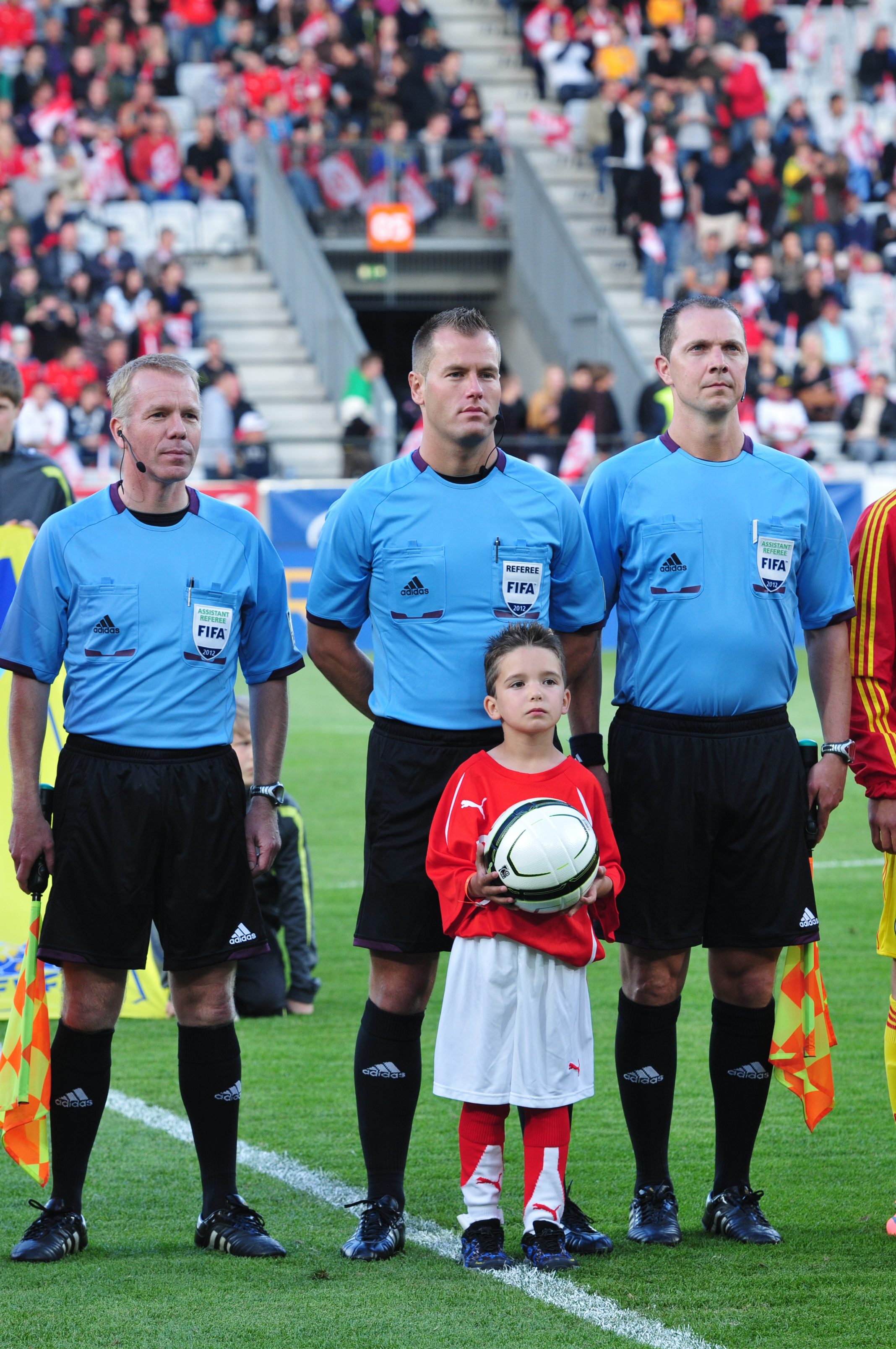 Exhibition game Austria vs. Romania at 5st. June 2012; Referees Rob van der Ven, Danny Makkelie and Wilco Lobbert from Netherlands (l.t.r.)